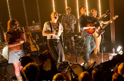 The trio behind this summer's sleeper hit, 'Ho Hey,' performs an exclusive set - live from Chicago! Check out The Lumineers in a six song set, including 'Submarines,' 'Flowers In Your Hair,' and 'Ho Hey.' Plus, lead singer Wesley Schultz opens up to Walmart Soundcheck about moving from New York City to Denver, a CraigsList meeting that changed his life, and the story behind the band's self-titled debut.